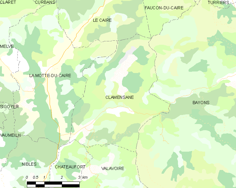 Map commune FR insee code 04057.png Légende